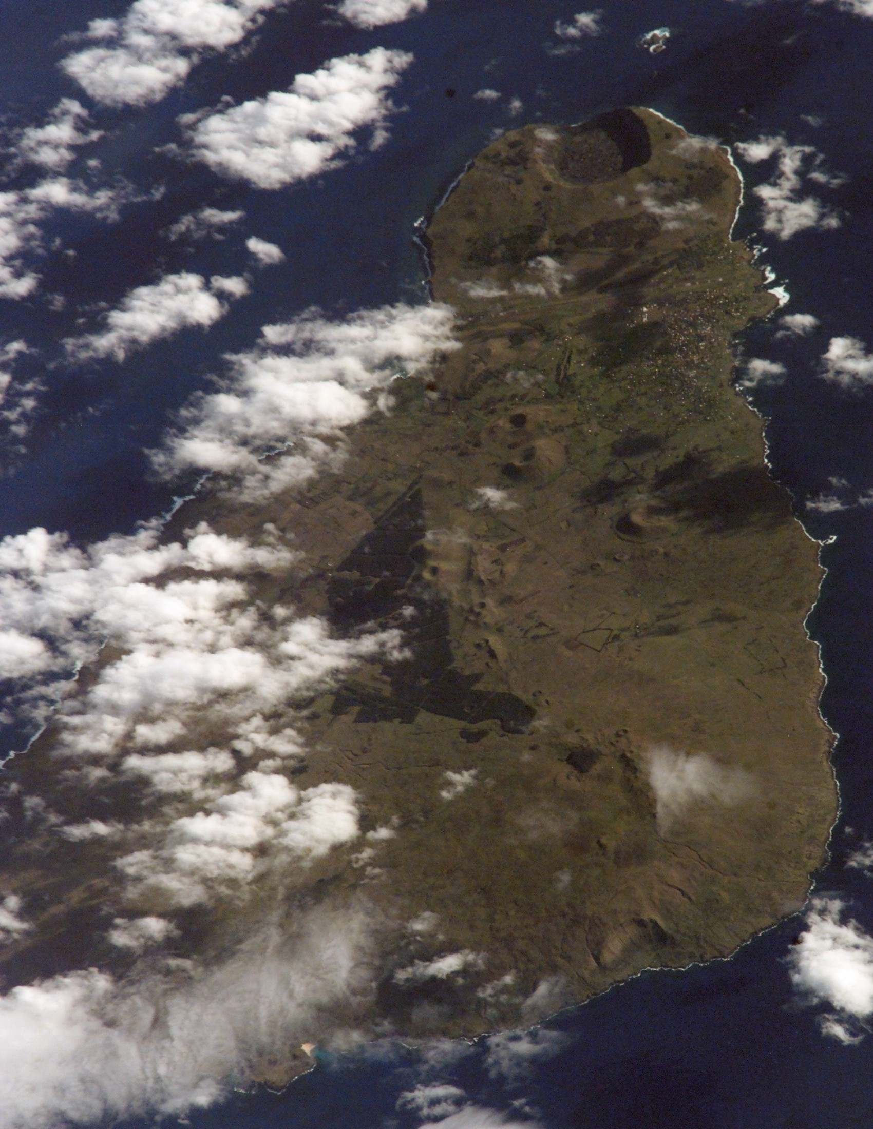 Astronauts aboard the International Space Station viewed Easter Island, one of the most remote locations on Earth. Easter Island is more than 2000 miles from the closest populations on Tahiti and Chile—even more remote than astronauts orbiting at 210 n.mi. above the Earth. The island is less than 15 miles long